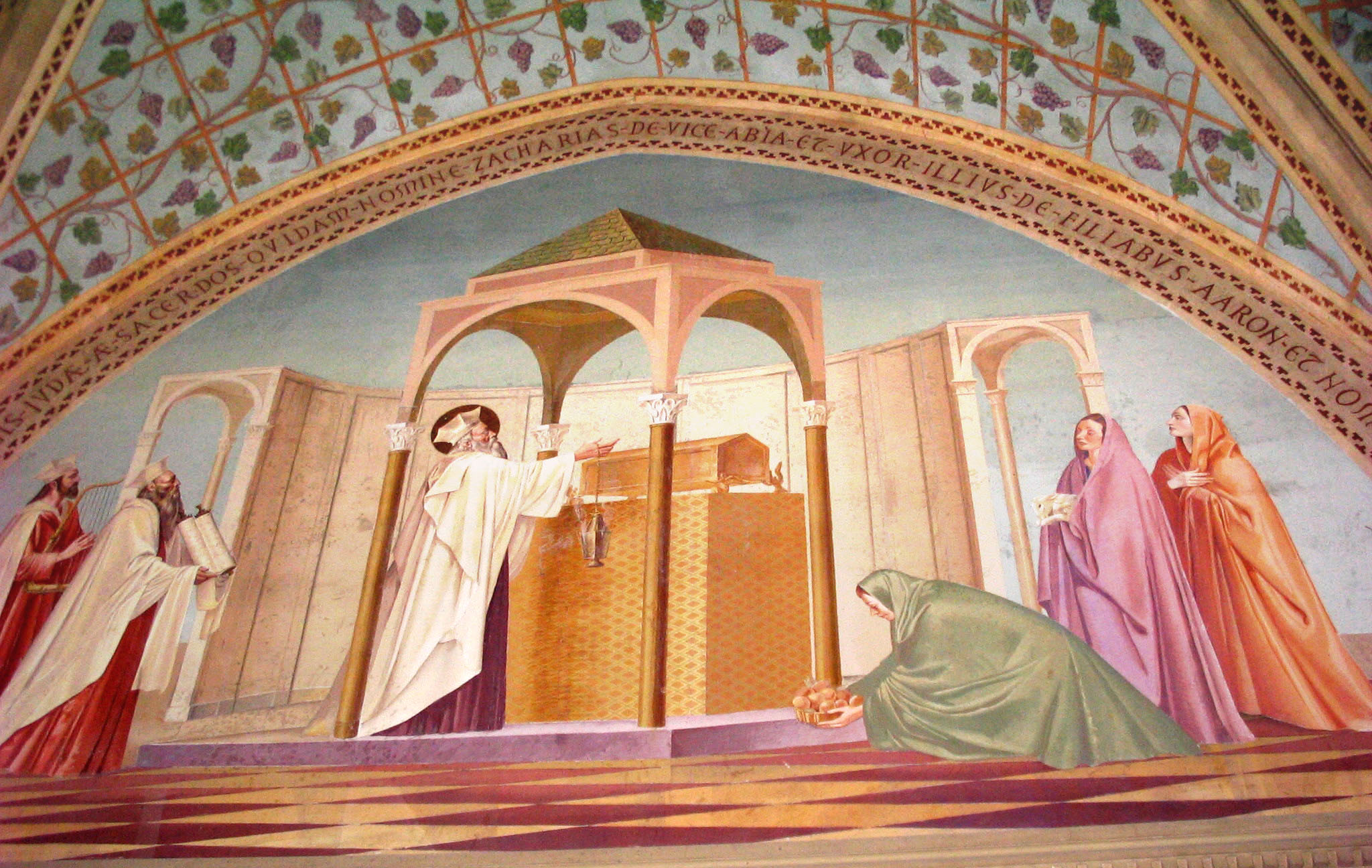 Ein Kerem, Church of Visitation